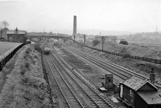 Site of Bradley Station. View NE, towards Bradley Wood Junction and Brighouse (left), Heaton Lodge Junction and Mirfield (also Spen Valley loop) (right); ex-LNW main line Manchester - Huddersfield - Leeds, with loop to Brighouse (closed 5/1/70, and re-opened 28/05/2000). Bradley station was closed 2/3/50.